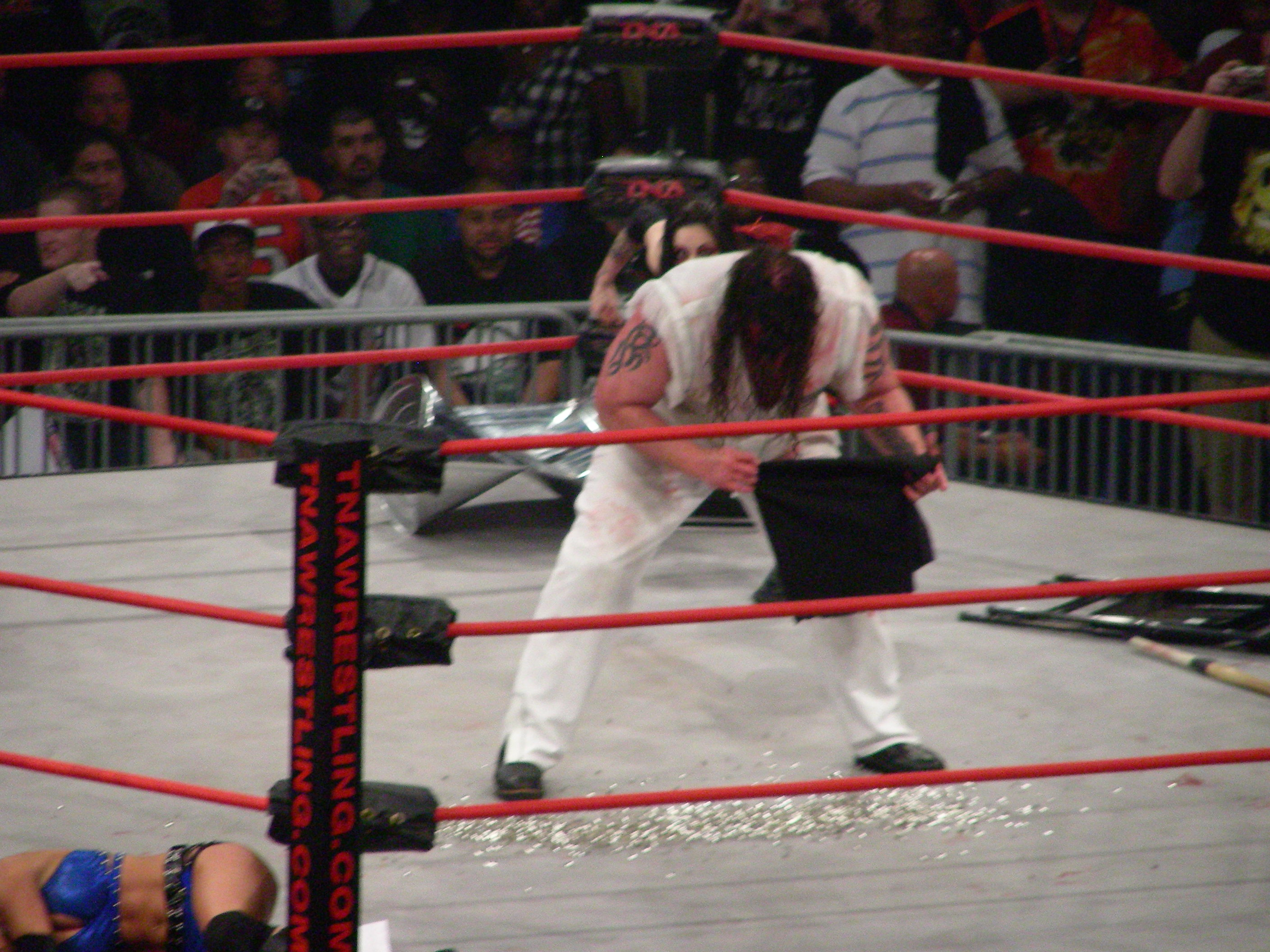 Abyss pouring out the bag of thumbtacks! winner via BLACK HOLE SLAM into the Tacks -Abyss & Taylor Wilde